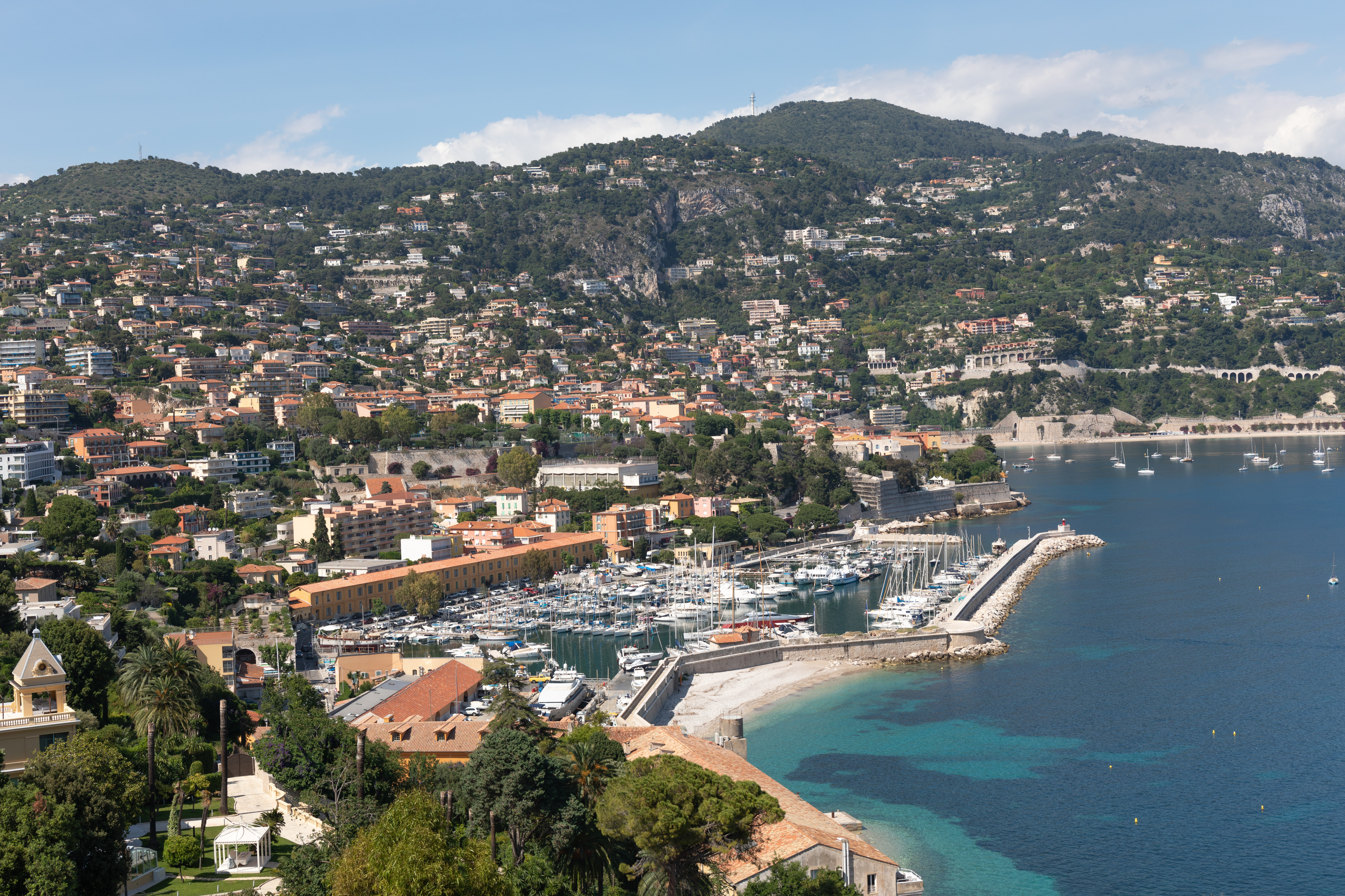 The port of Villefranche-sur-Mer